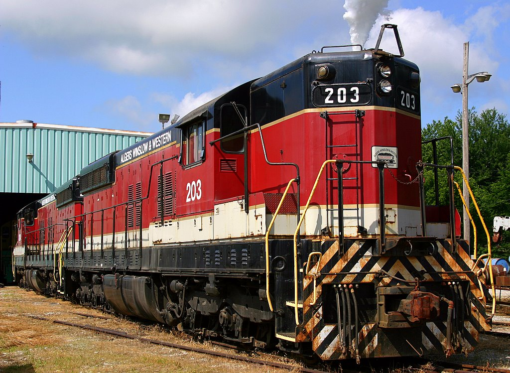 2 of the 4 SD9's bask under a morning sun at Yankeetown, INen:Algers, Winslow and Western Railway #203, EMD SD9